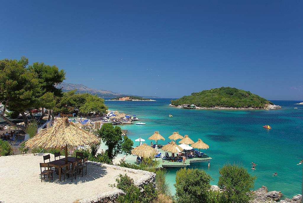 tourists in ksamil